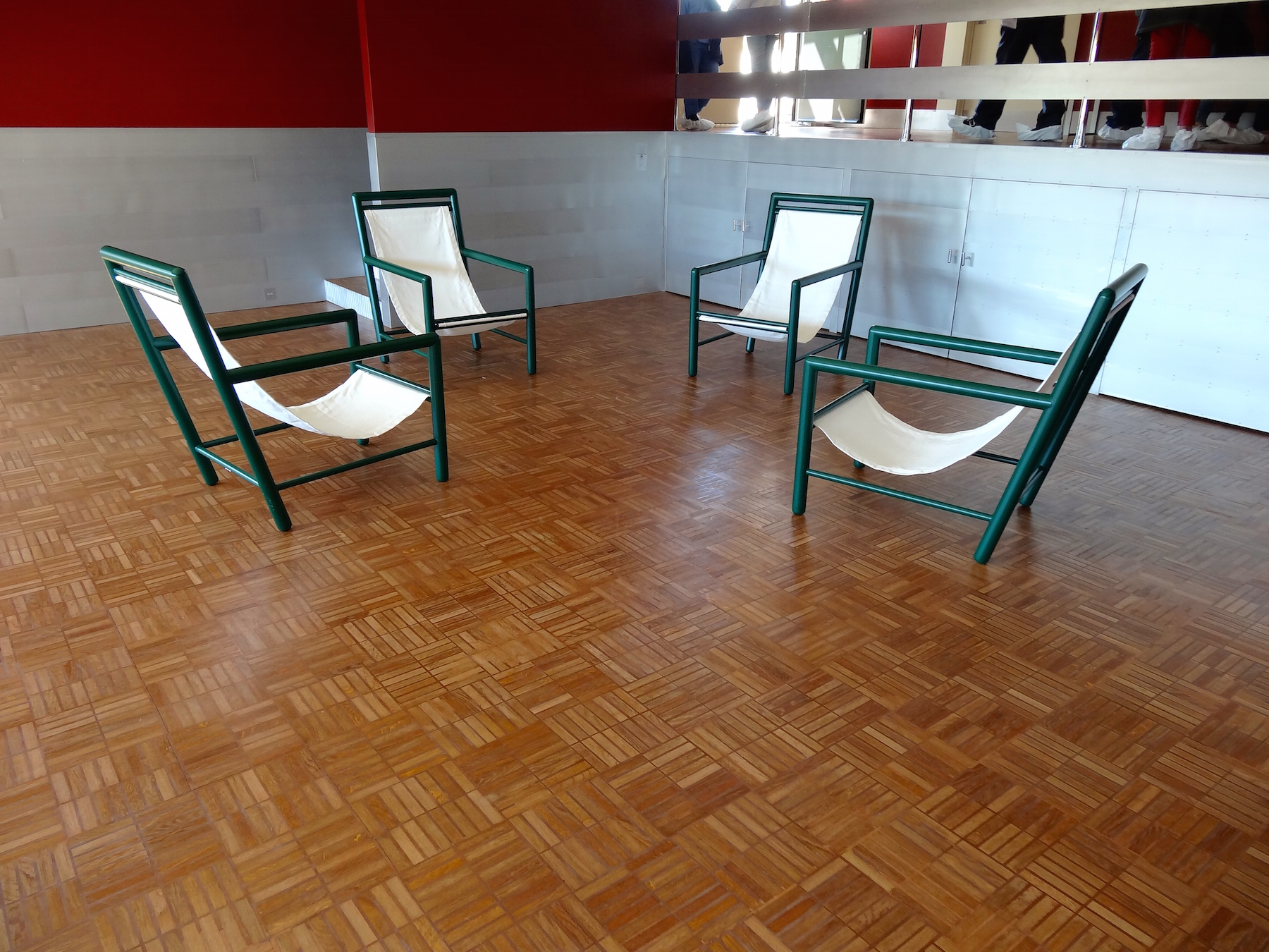 Villa Cavrois playroom .